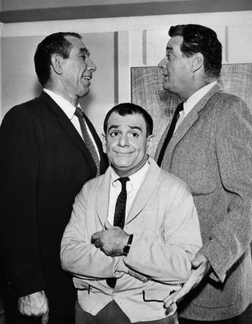 Photo of Sid Melton as Charlie Halper from the television program The Danny Thomas Show. In this episode, Charlie has an argument with his very large neighbor (Ray Kellogg, at right). His friend (Mike Mazurski, at left), steps in to help him out.